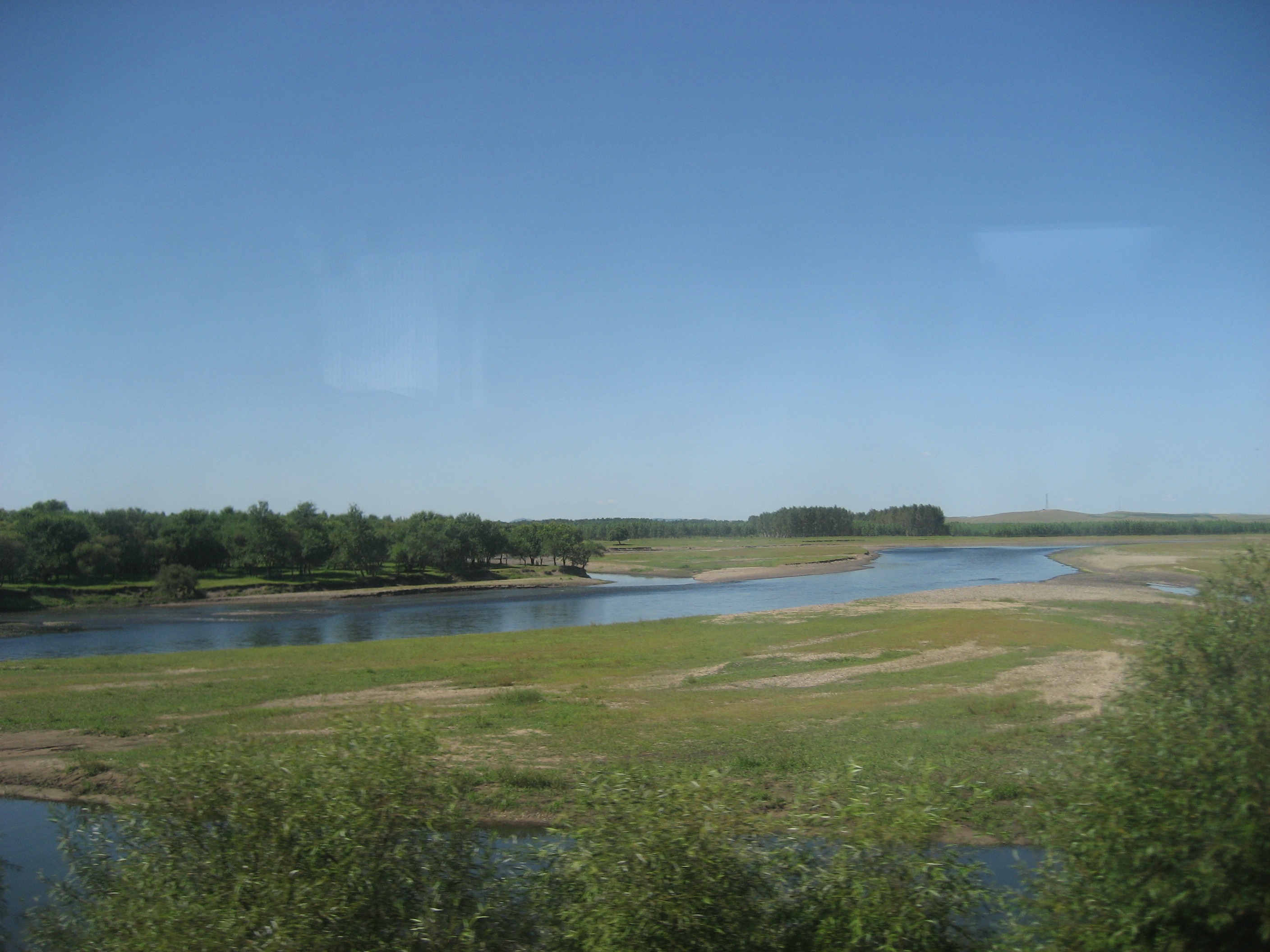 landscape from Hulan Ergi to Yakeshi